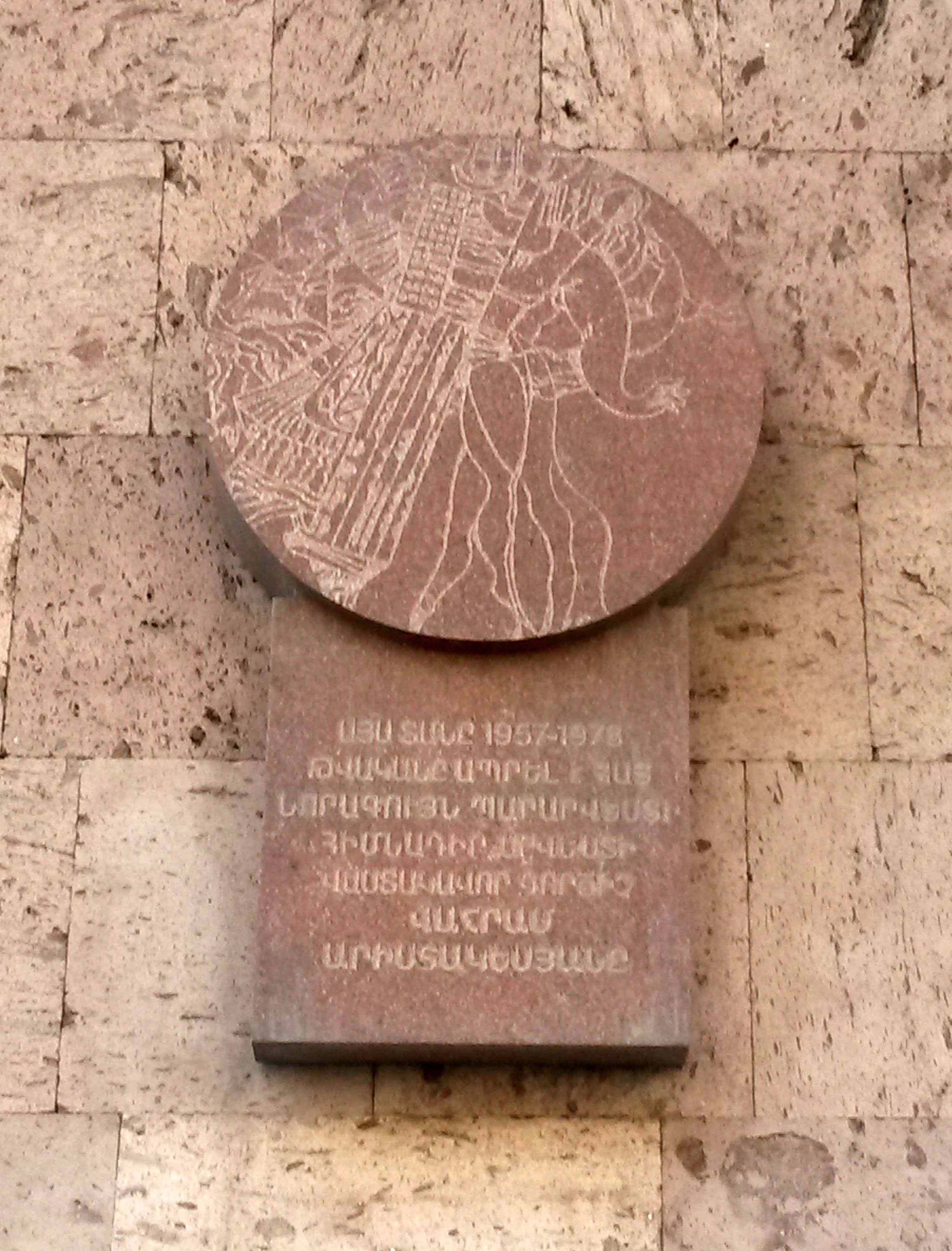 Vahram Aristakesyan's plaque on Moskovyan street, Yerevan